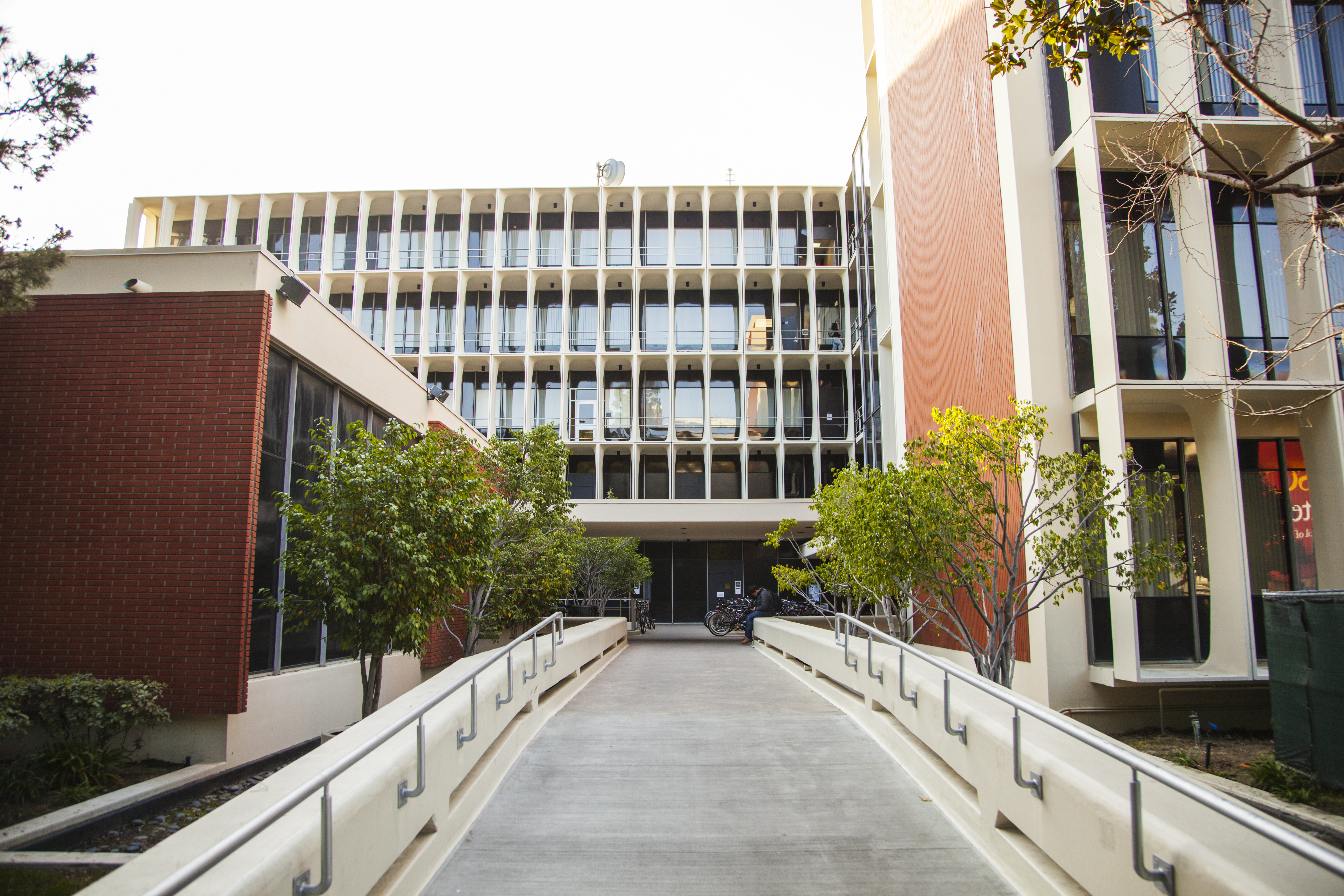 USC Viterbi campus